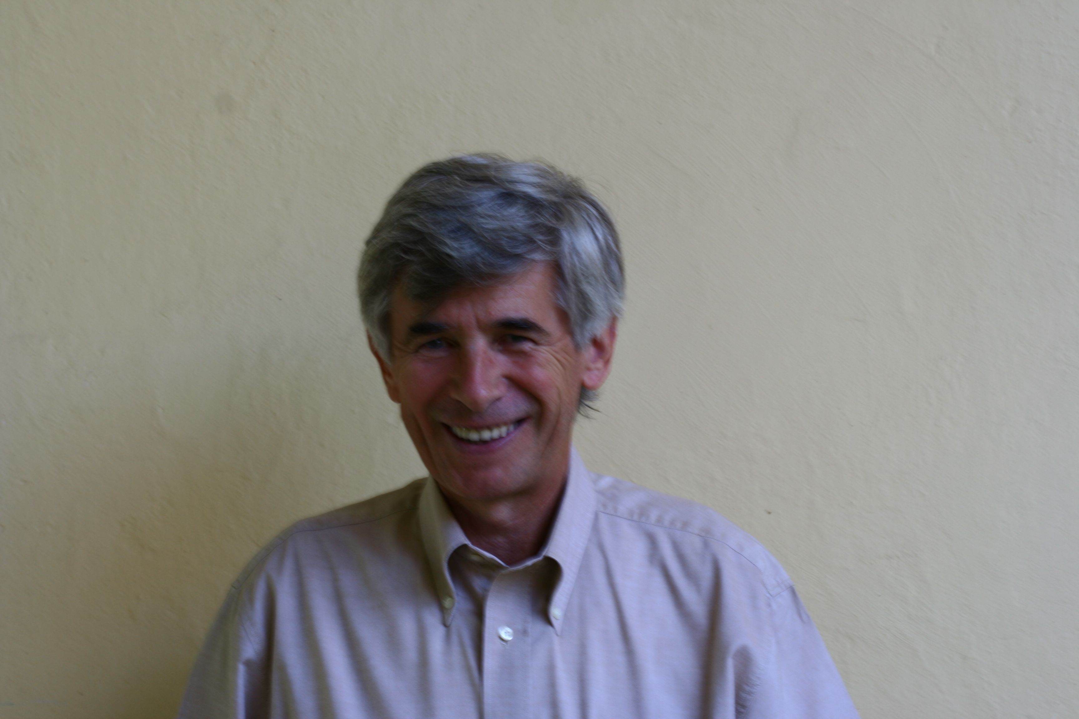 Nationalrat Franz Glaser at home in Burgenland